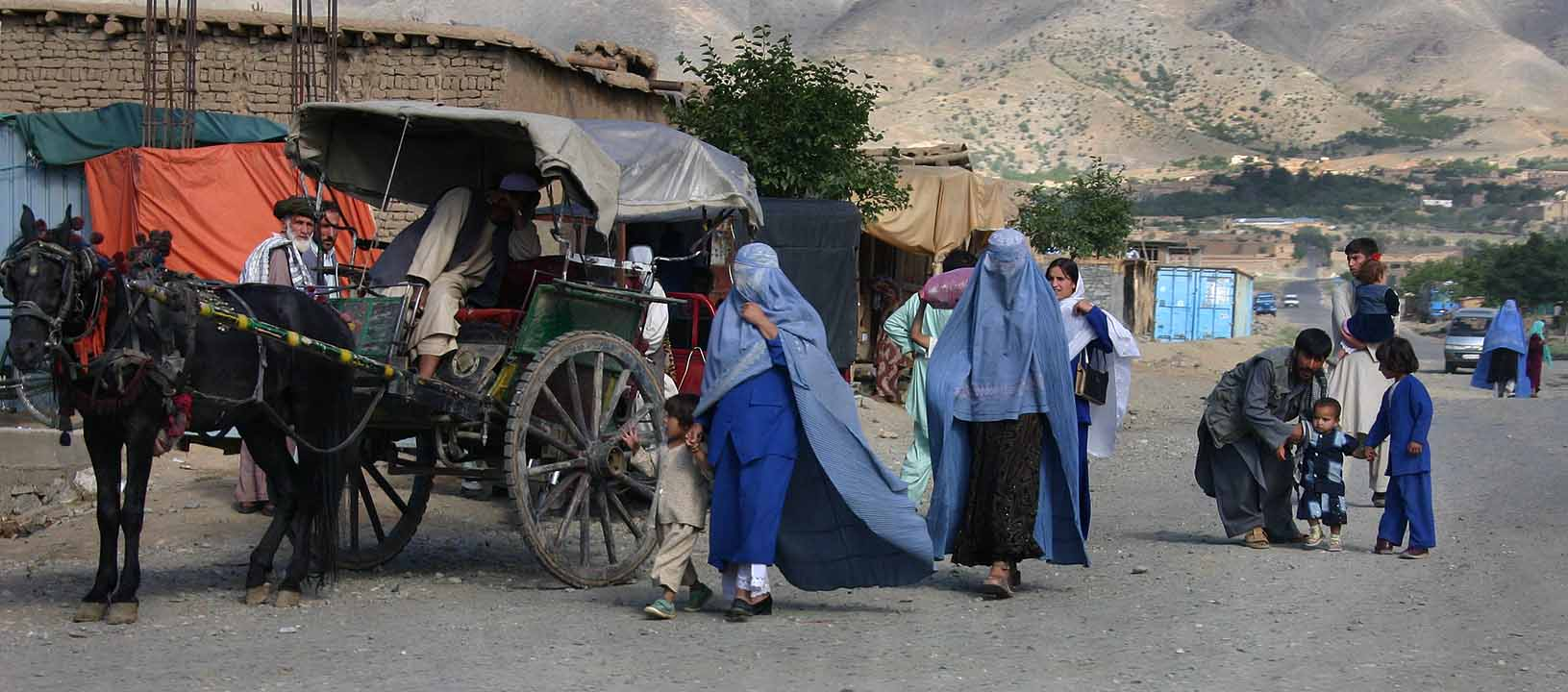 Street scene, Afghanistan